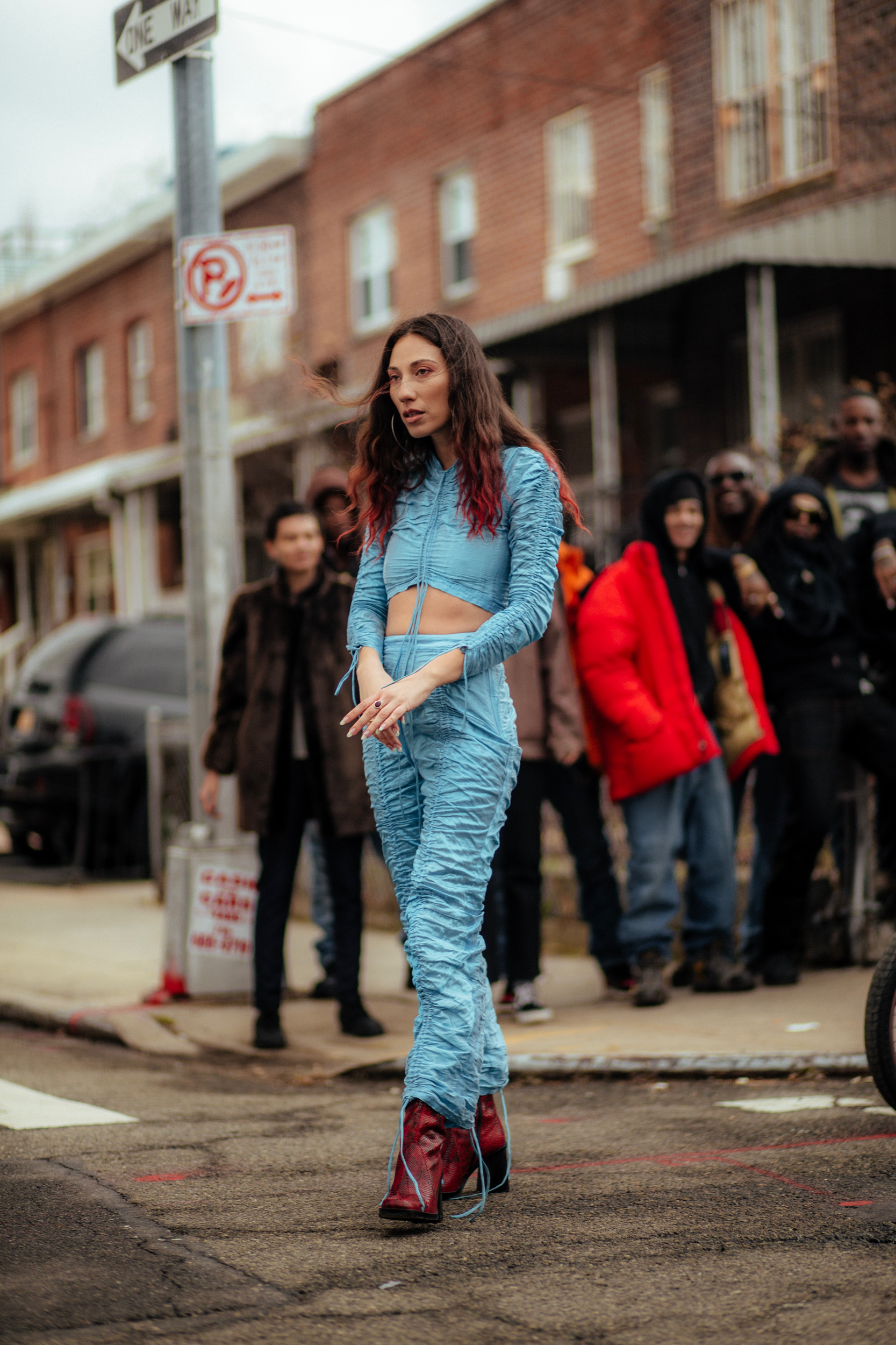 Tei Shi backstage at the Hope video shoot